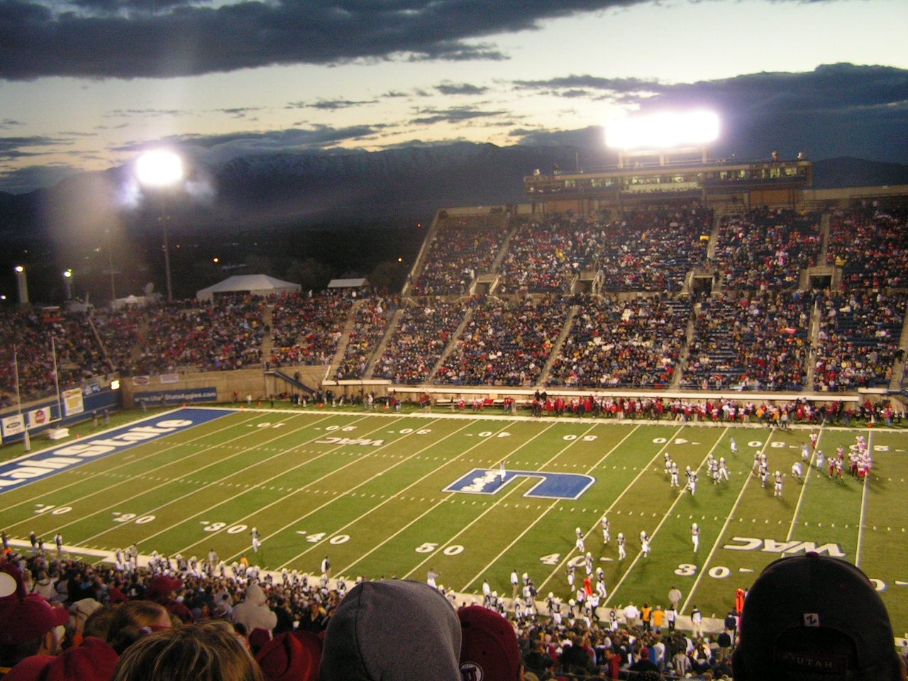 Photo of Romney Stadium on the Campus of Utah State University during a game against the University of Utah. September 16, 2006.